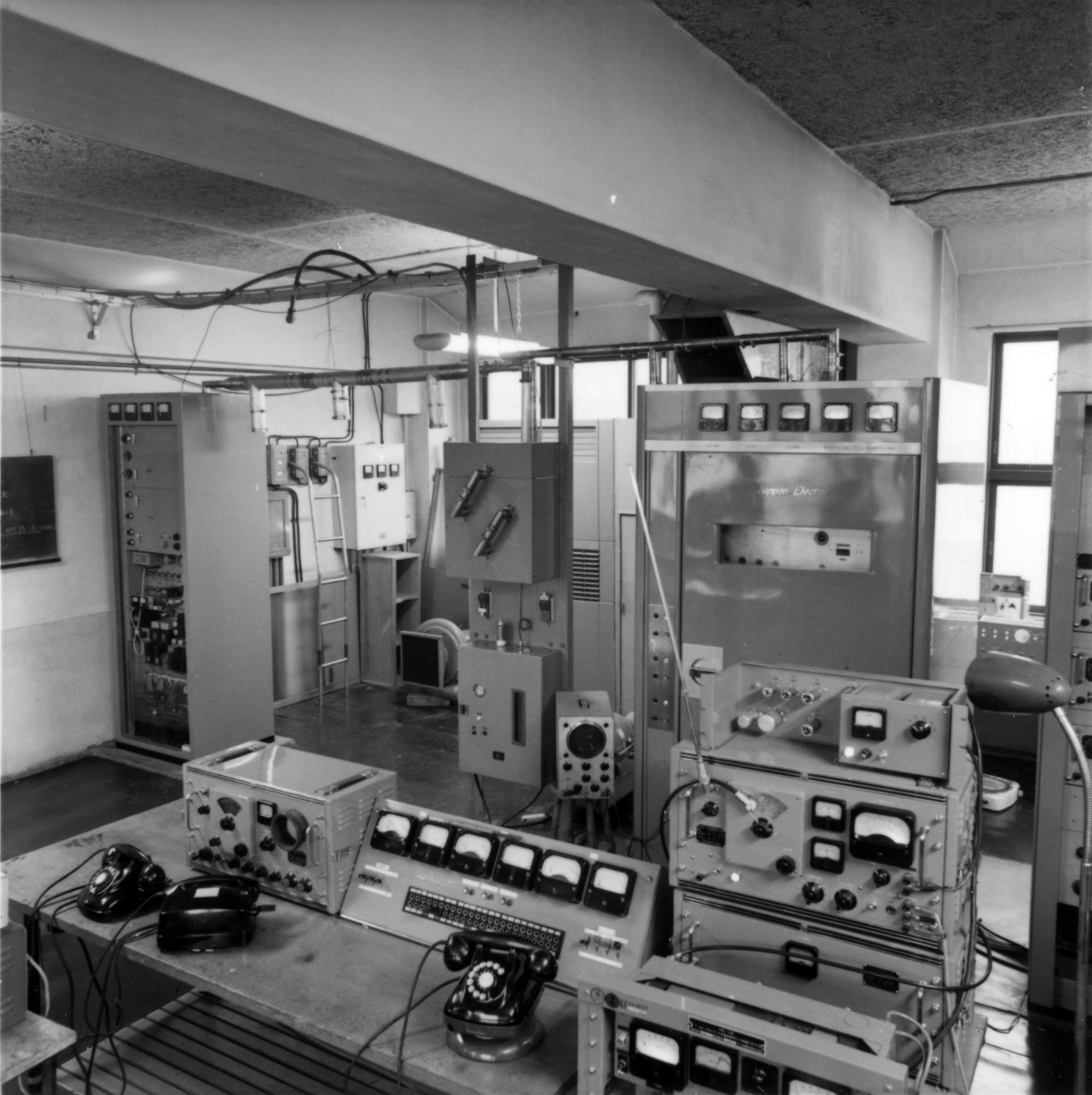 FM Tranmitter Room of FM Tokai in Tokai University.